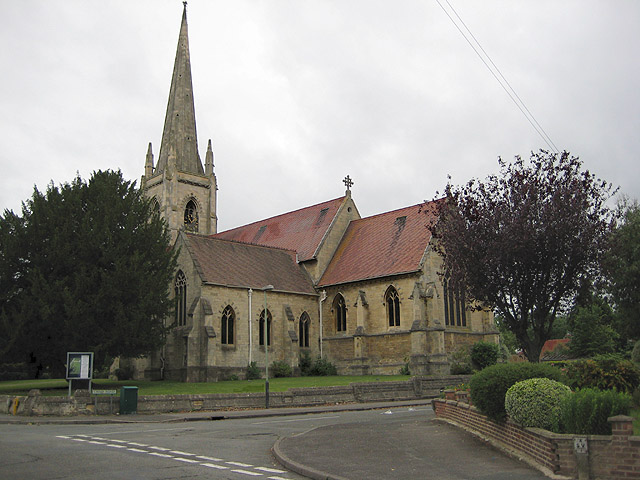 St Marks Church, Cheltenham At the junction of Church Road and Chad Road.